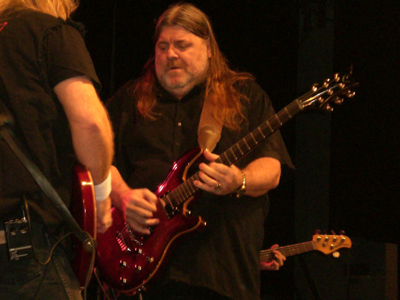 Dave Hlubek